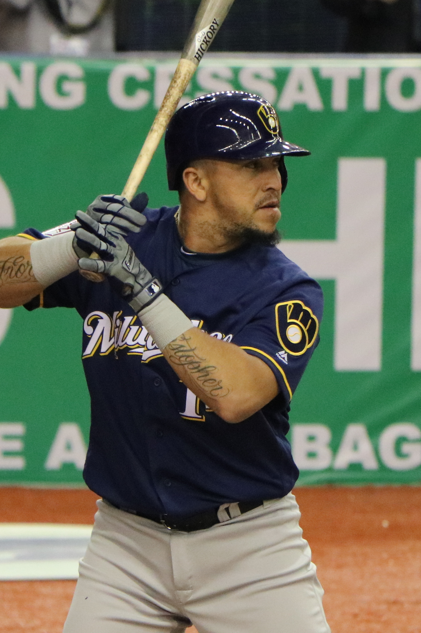 Hernán Pérez at bat, March 25, 2019